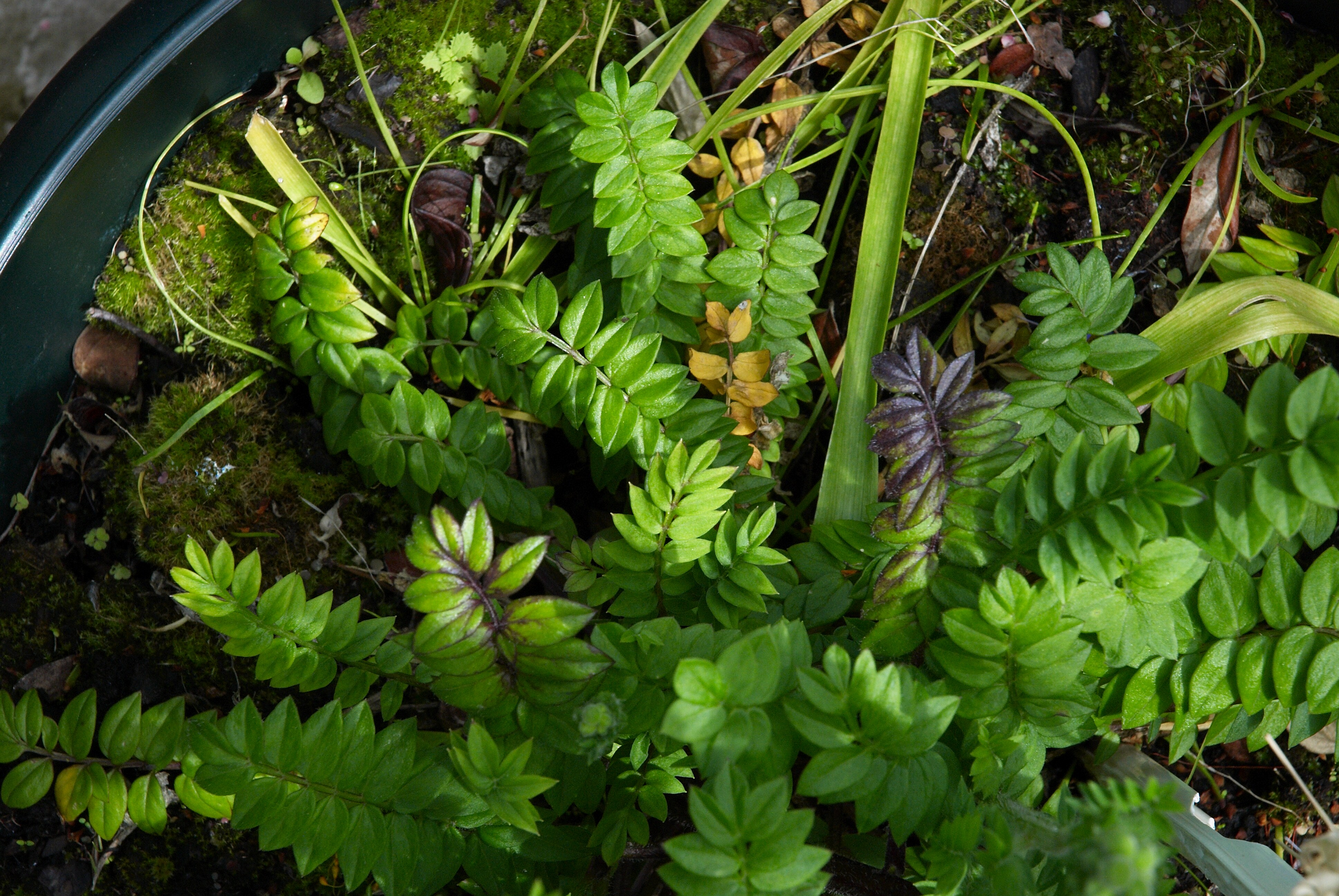 Jacob's Ladder or Greek valerian